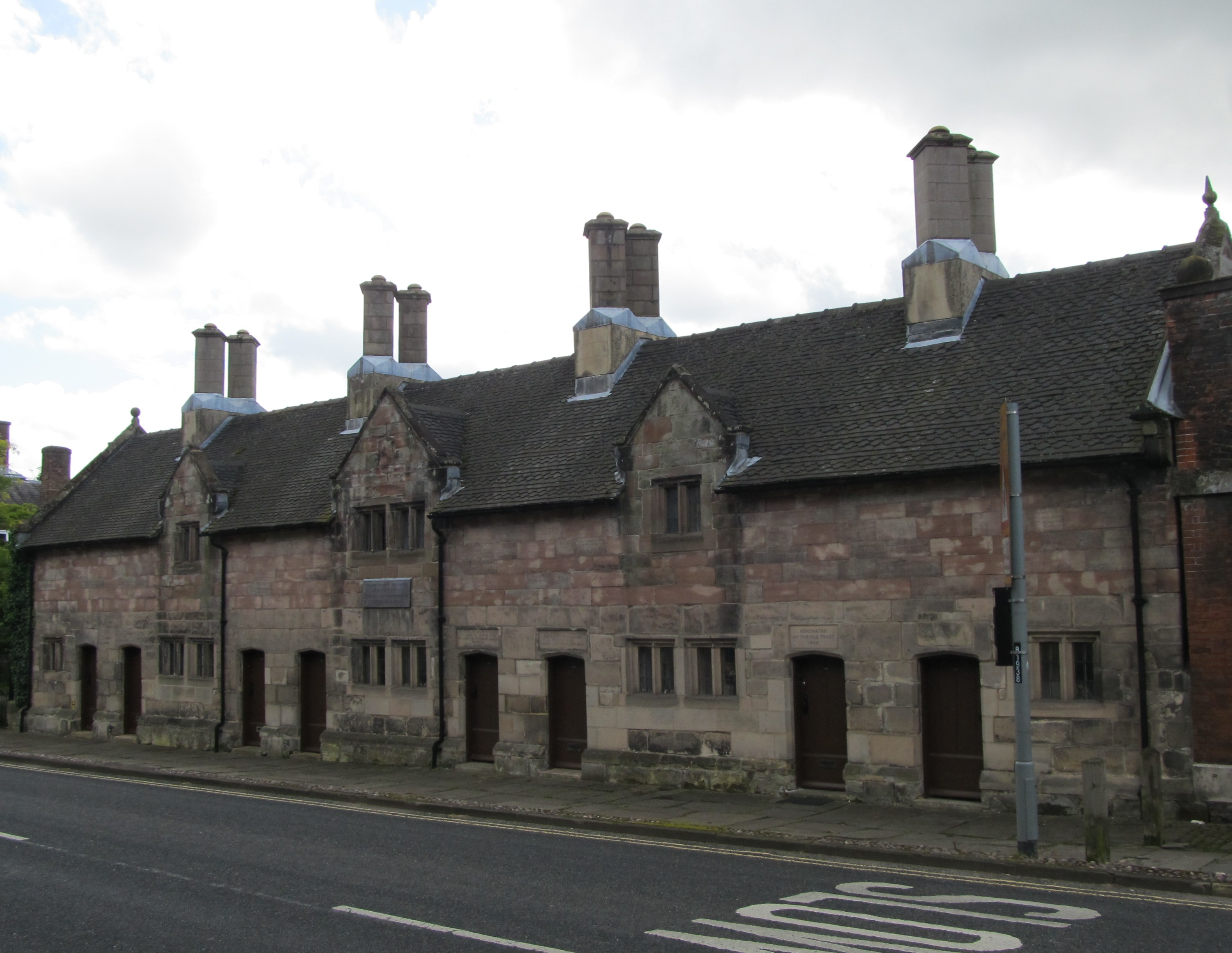 photo from road